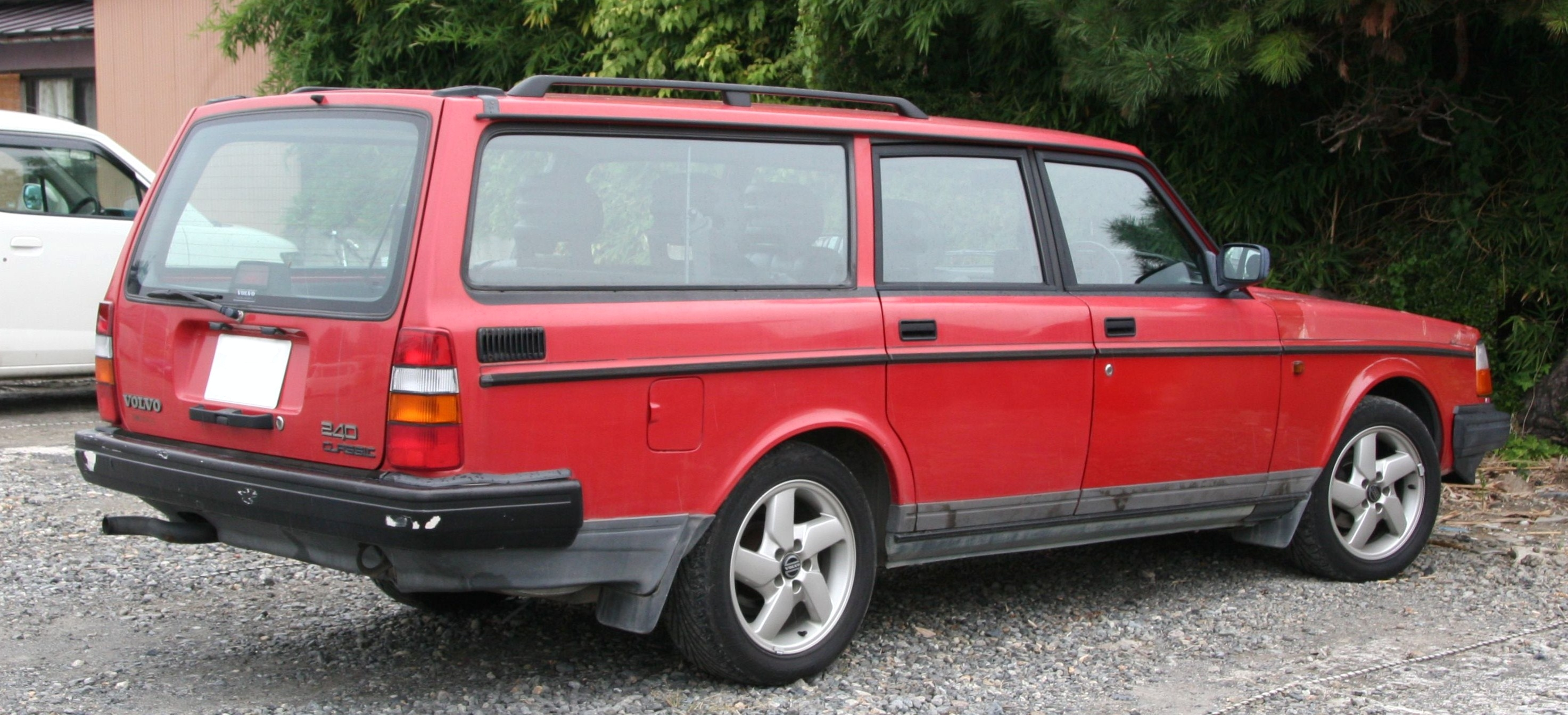 Volvo 240 Station Wagon (later wheels)